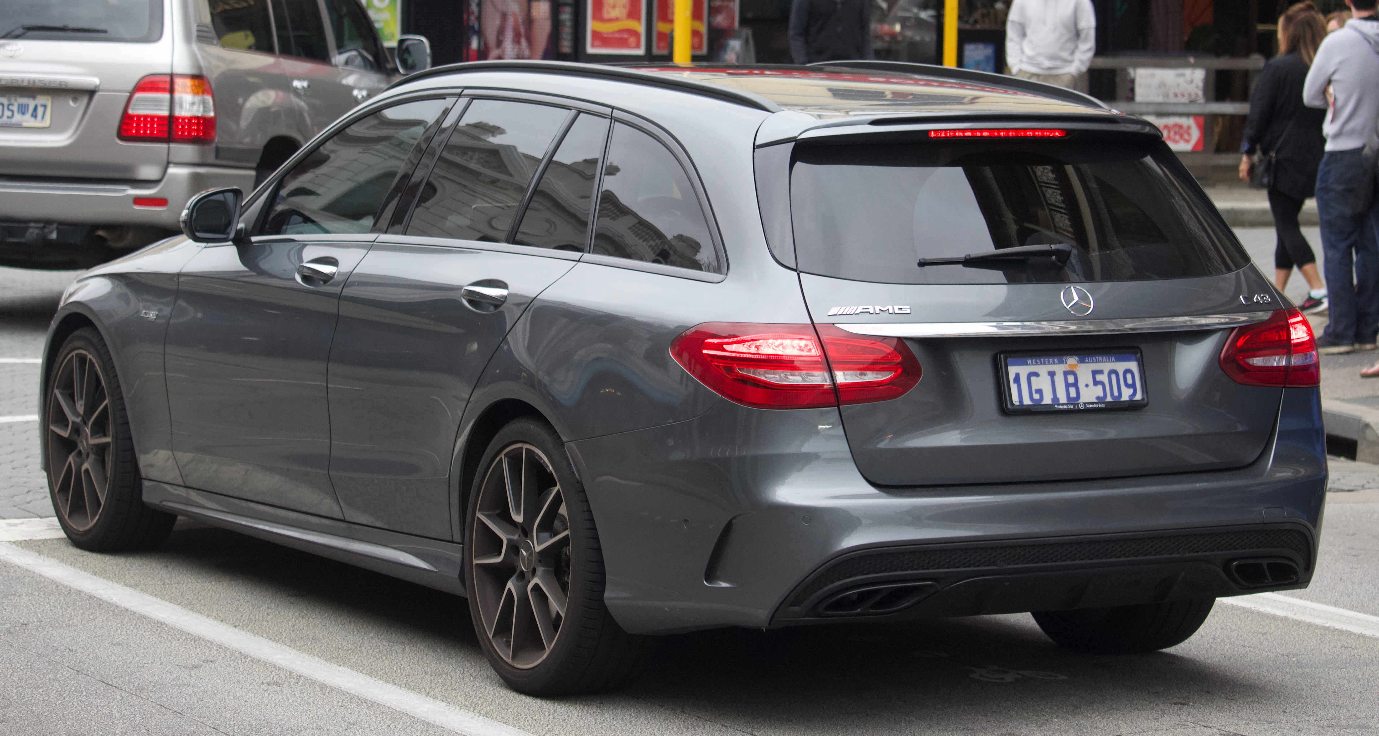 2017 Mercedes-Benz C 43 AMG (S 205) station wagon. Photographed in Fremantle, Western Australia, Australia.